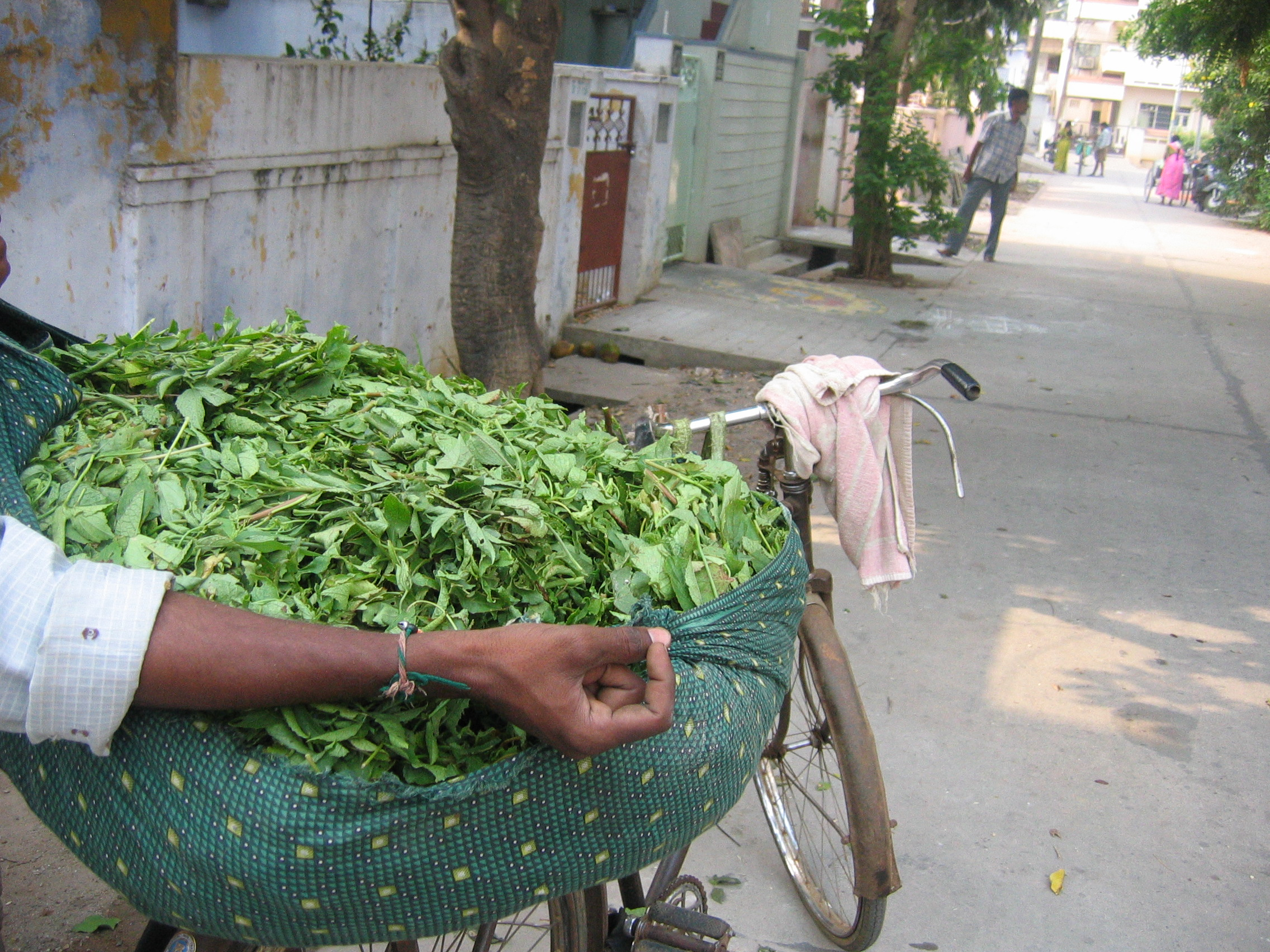 Gongura being sold on a street at Guntur City, India.